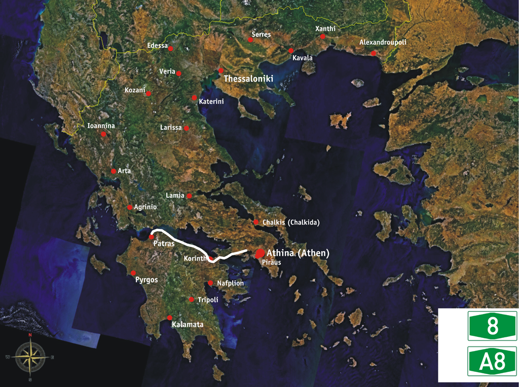 Course or track of Greek Motorway (avtokinetodromos) A8.